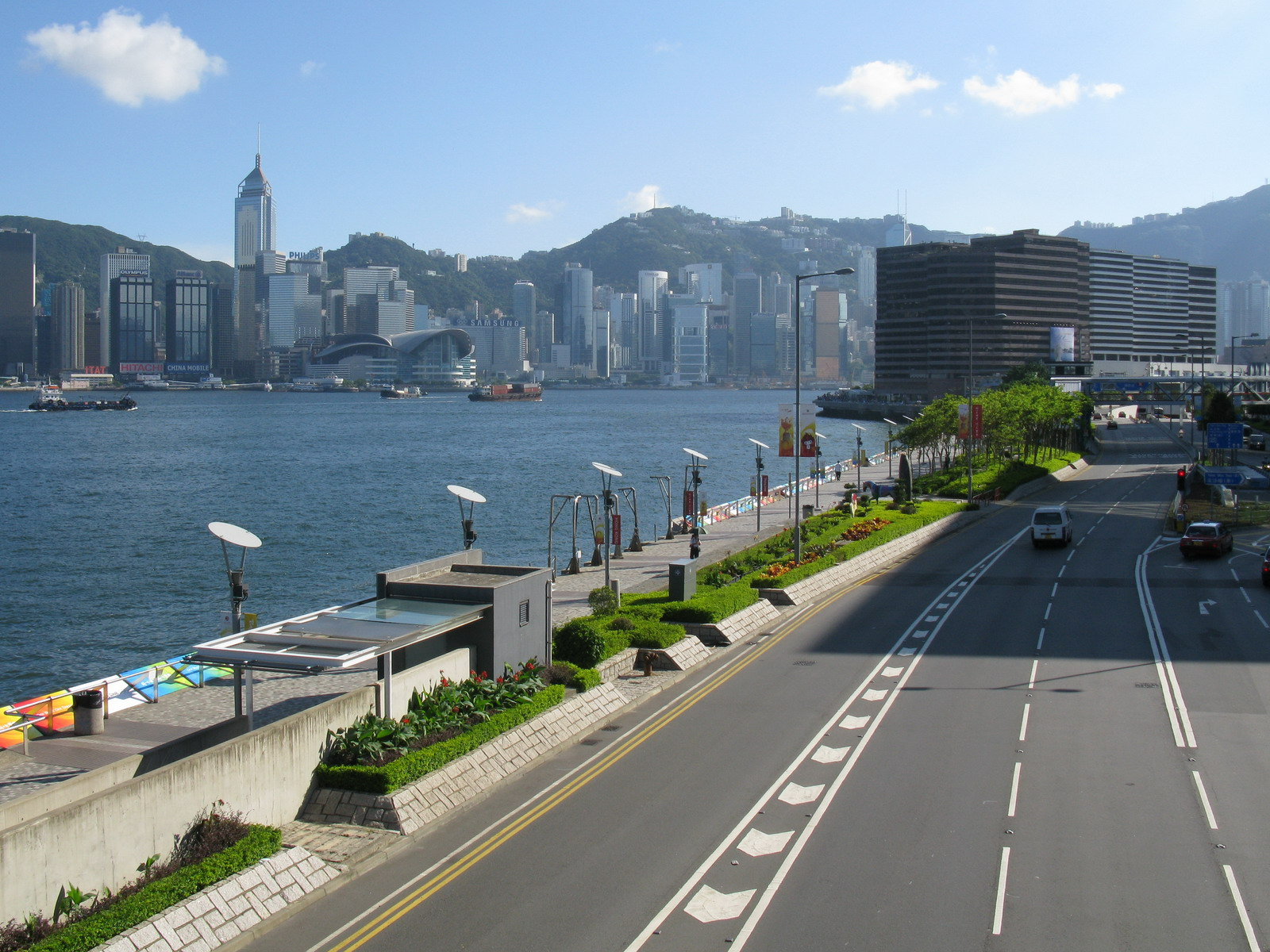 Salisbury Road & Tsim Sha Tsui Promenade